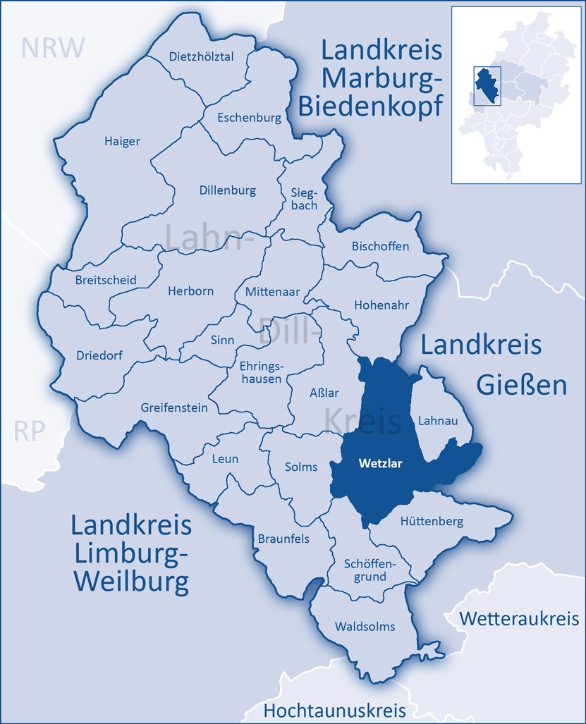 The map shows a district in the area of Lahn-Dill-Kreis